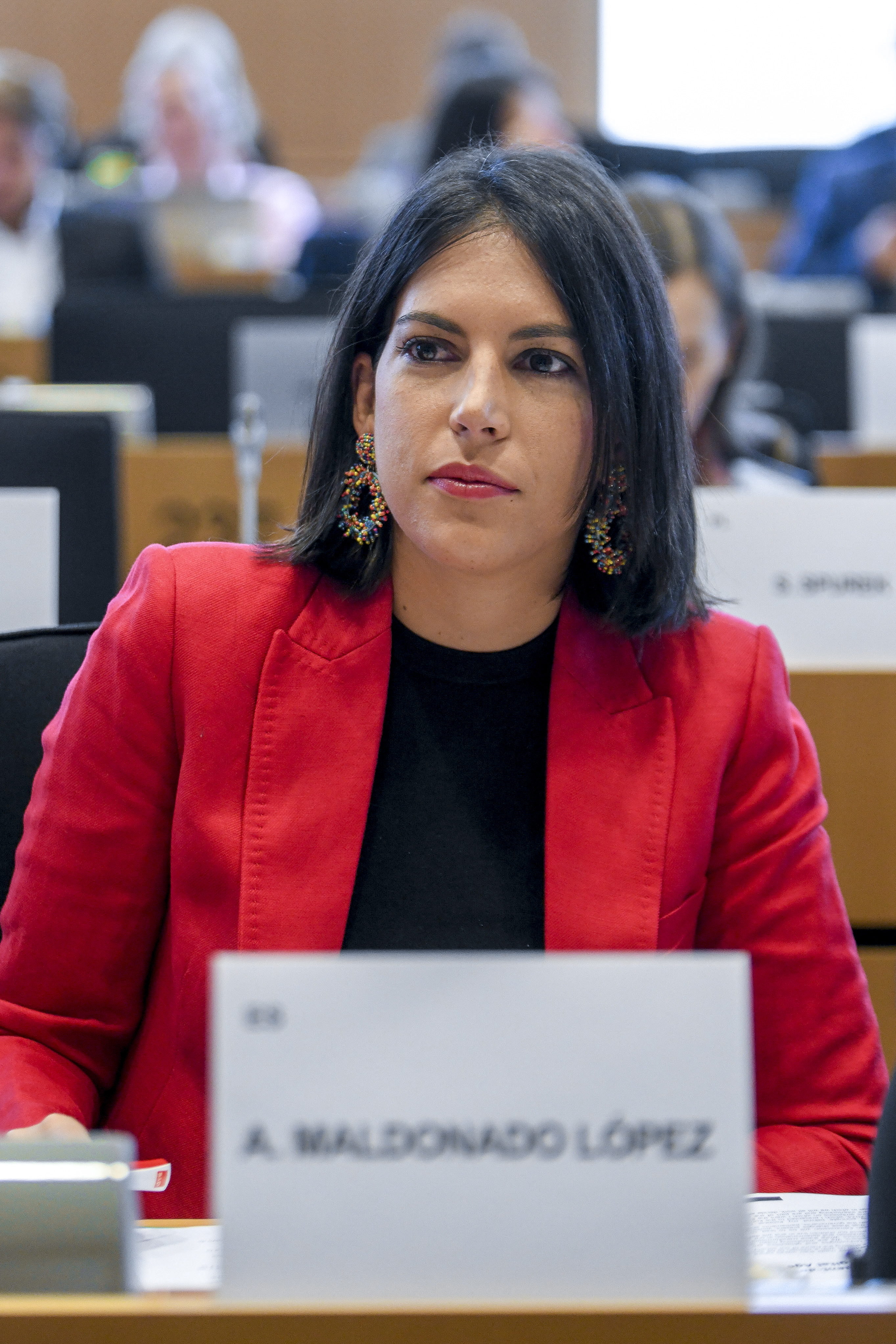 Diputada al Parlamento Europeo desde 2019